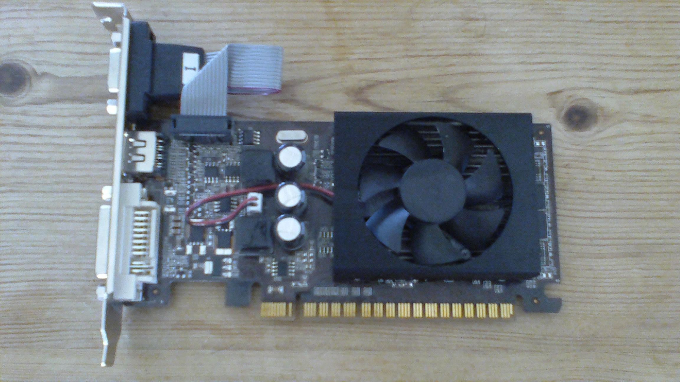 Video Card.